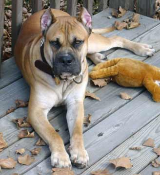 Spanish bulldog